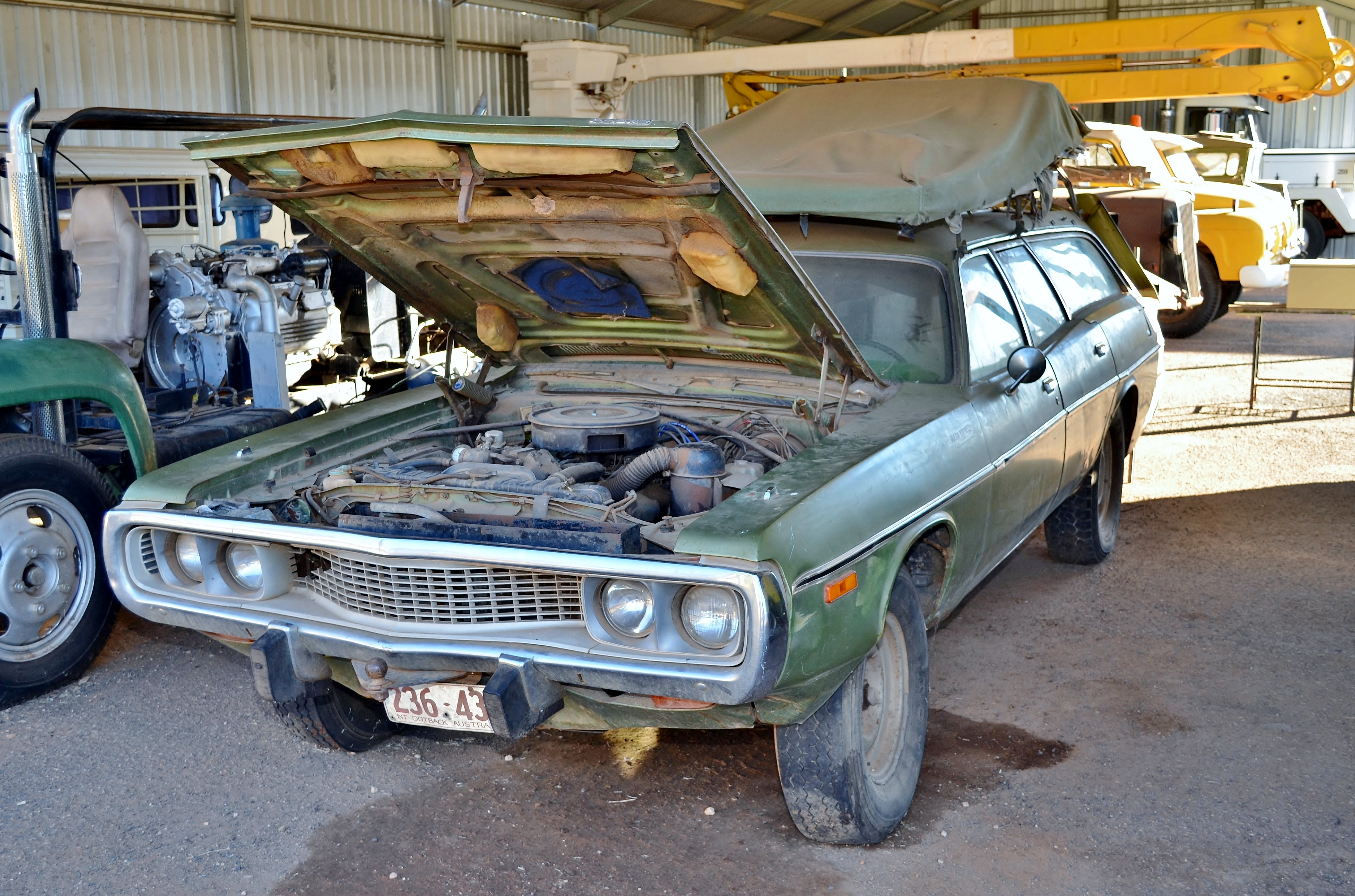 A Dodge Coronet station wagon on display at the National Road Transport Hall of Fame, Alice Springs, NT, Australia. This vehicle was converted by its previous owner, Kurt Johannsen, to run on gas created from burning mulga wood. During the 1980s, it was used for exploration and touring in remote areas.